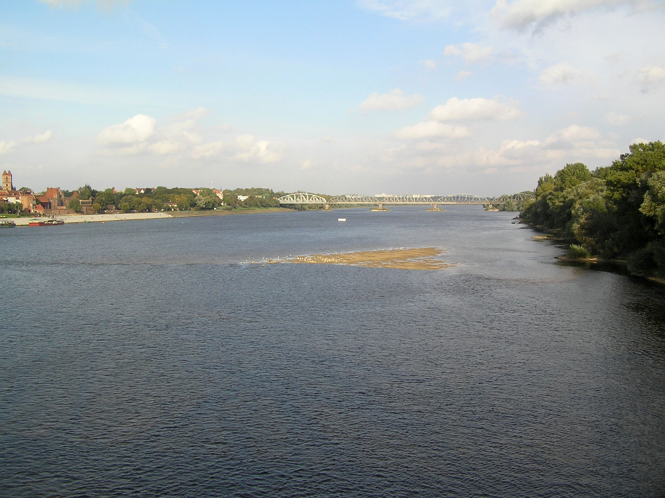 Toruń, Vistula river seen from road bridge, at the backgroun railway bridge